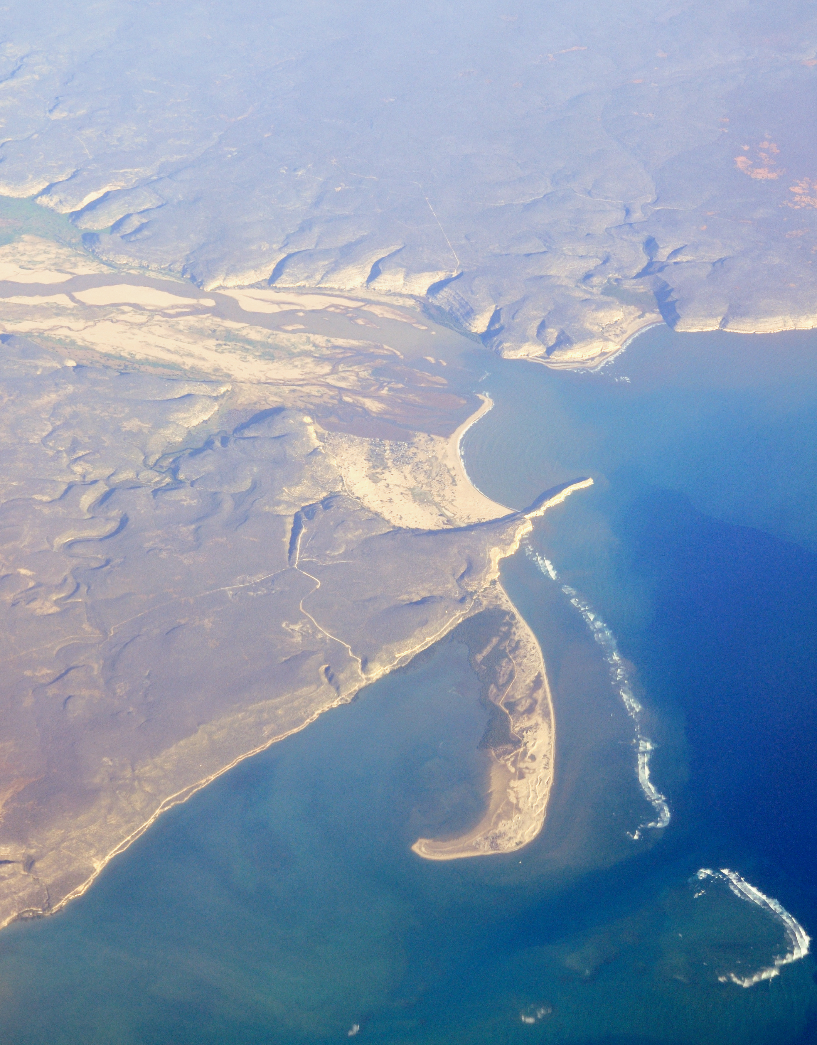 Madagascar, View overhead Andranomena